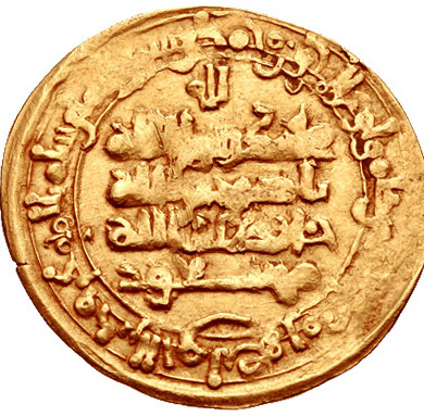 Coin of the Ghaznavid Sultan Mas'ud I. AH 421-432 / AD 1031–1041. AV Dinar (25mm, 4.15 g, 7h). Nishapur mint. Dated AH 423 (AD 1011/2). Album 1618. VF.